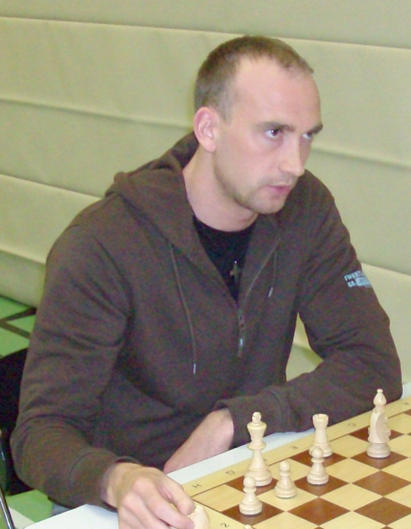 Martin Senff, chess player from Germany